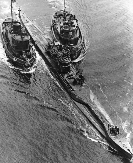 U.S. tugs escort a surrendered German submarine to the Portsmouth Naval Shipyard, New Hampshire (USA), in May 1945. Although described as the Type XB submarine U-234, this appears to be one of the Type IXC/40 submarines U-805 or U-1228.